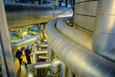 Реакционные аппараты